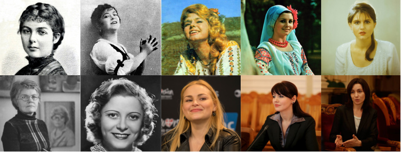 Collage of Moldovan women